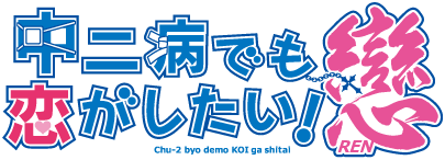 Chūnibyō demo Koi ga Shitai! REN (2nd Season) Anime Logo